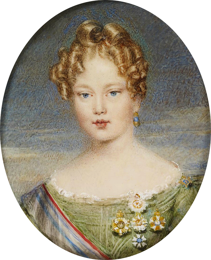 Queen Dona Maria II of Portugal, 1833.